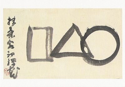 Sengai Gibon's painting